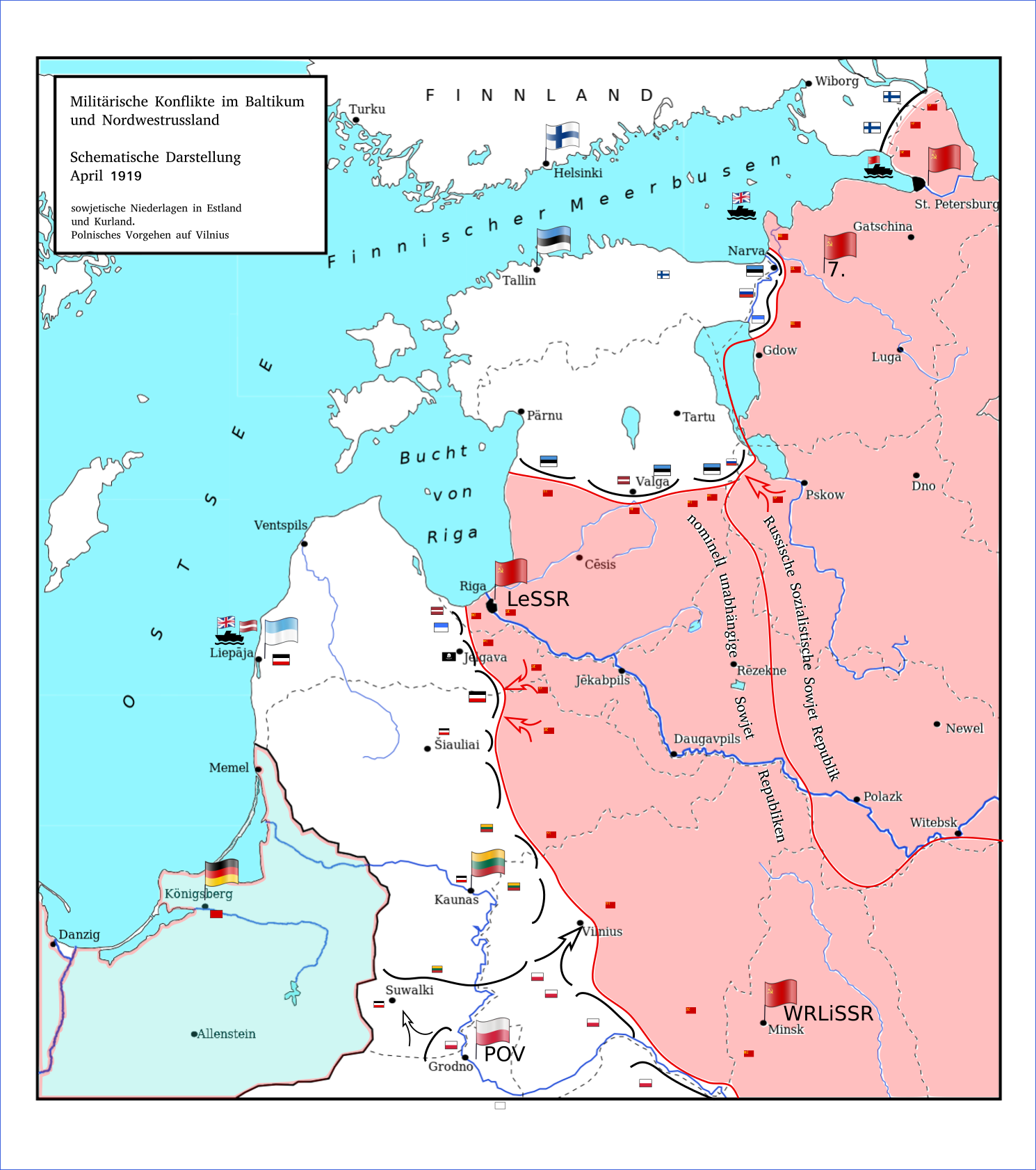 map of armed conflicts in the Baltics and North-West-Russia April 1919